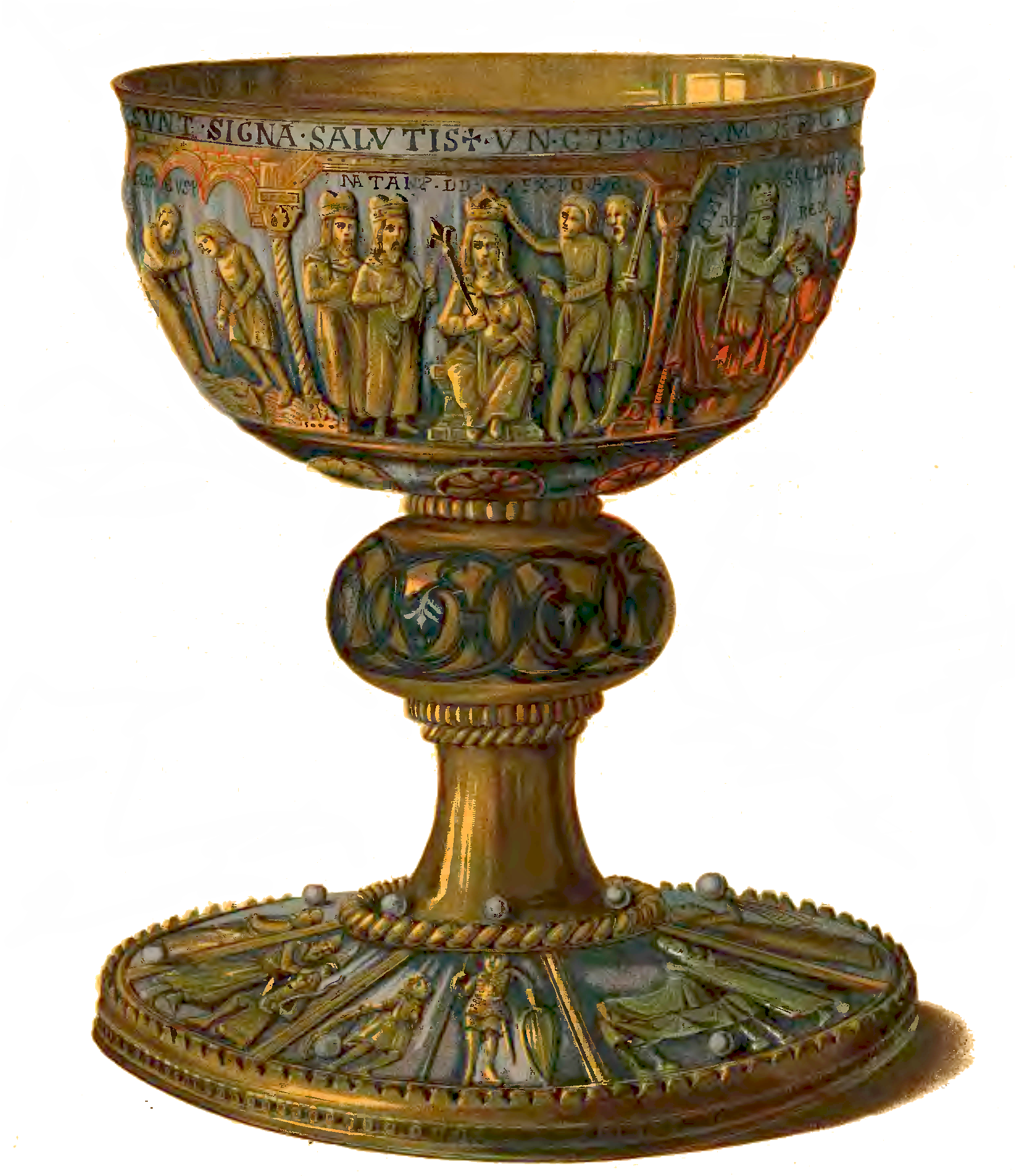 Second cup (chalice) of Dąbrówka. Chromolithography from 19th century.